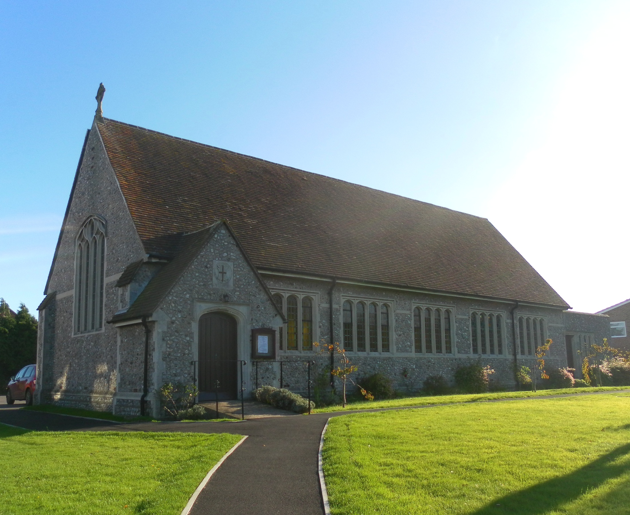 St George's Church, Eastbourne Road, Polegate, Wealden, East Sussex, England.